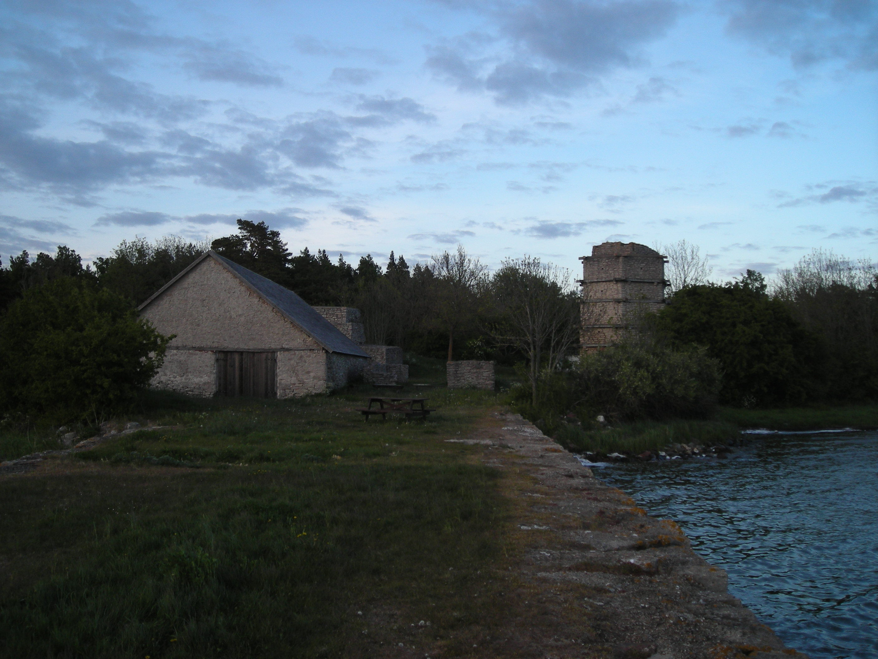 Barläst, Gotland